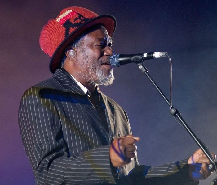 Horace Andy on the stage, Massive Attack show in Moscow, 2009.